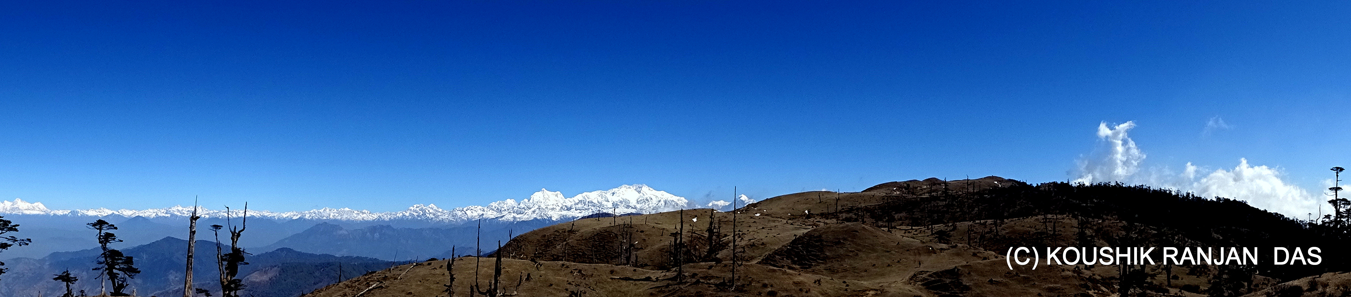 Snow peaks of Himalayas from the bugyals on the trek-way to Phalut